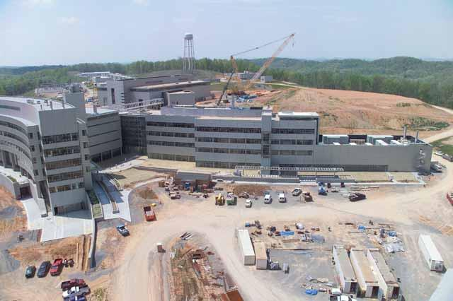 CONSTRUCTION OF THE SPALLATION NEUTRON SOURCE AT DOE'S OAK RIDGE NATIONAL LABORATORY. THE SPALLATION NEUTRON SOURCE (SNS) IS AN ACCELERATOR BASED NEUTRON SOURCE BEING BUILT IN OAK RIDGE, TENNESSEE BY THE DEPARTMENT OF ENERGY. SCHEDULED FOR COMPLETION IN 2006, THE SNS WILL PROVIDE THE MOST INTENDS PULSED POWER NEUTRON BEAMS IN THE WORLD FOR SCIENTIFIC RESEARCH AND INDUSTRIAL DEVELOPMENT. For more information or additional images, please contact 202-586-5251.